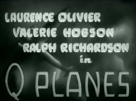 Q Planes, film by Tim Whelan (1939)